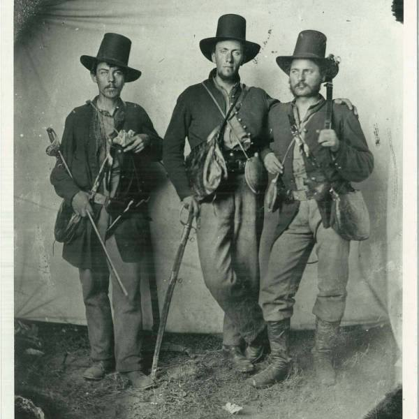 This is a Civil War photo of Lieutenant Albion Tourgée and comrades in the 105th Ohio Volunteer Infantry